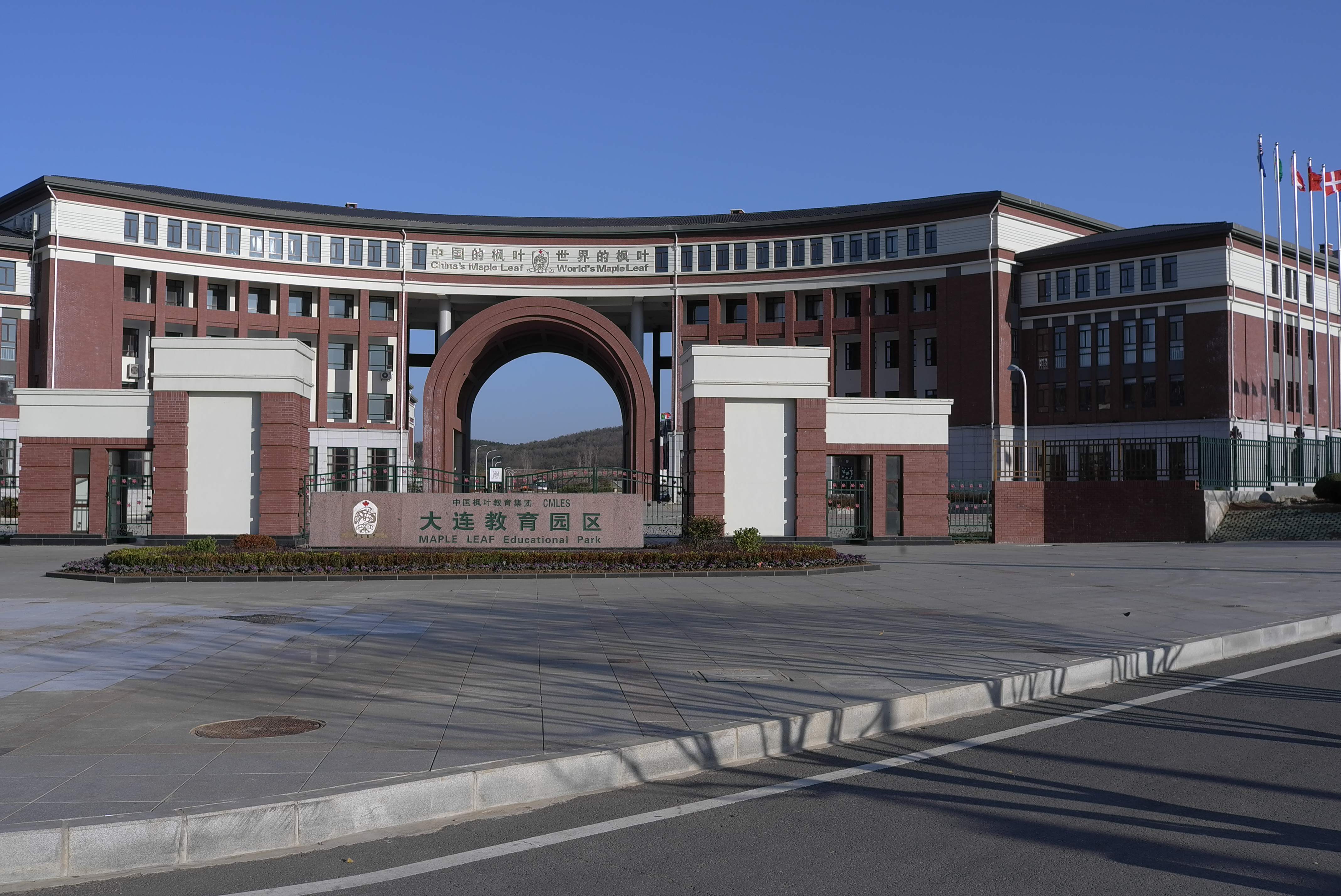 This is the main office of Maple Leaf Educational Systems (枫叶教育集团). It is on the campus of the largest Maple Leaf high school which is located in Jinshitan, Dalian, Liaoning, China.